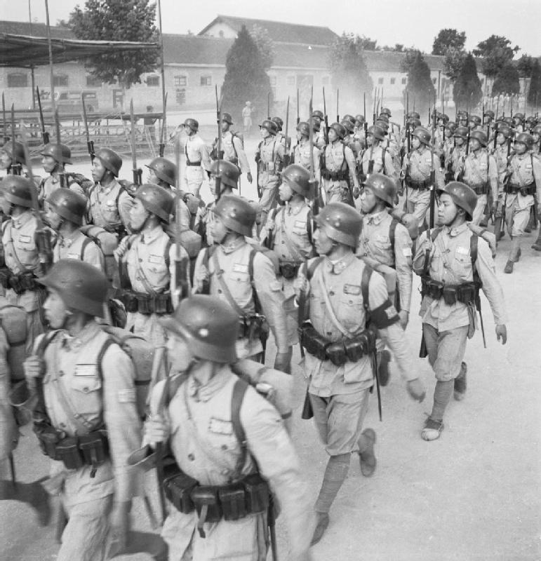 Cecil Beaton Photographs- General China 1944: Chinese troops practising a march past at the Chinese Military Academy at Chengtu.